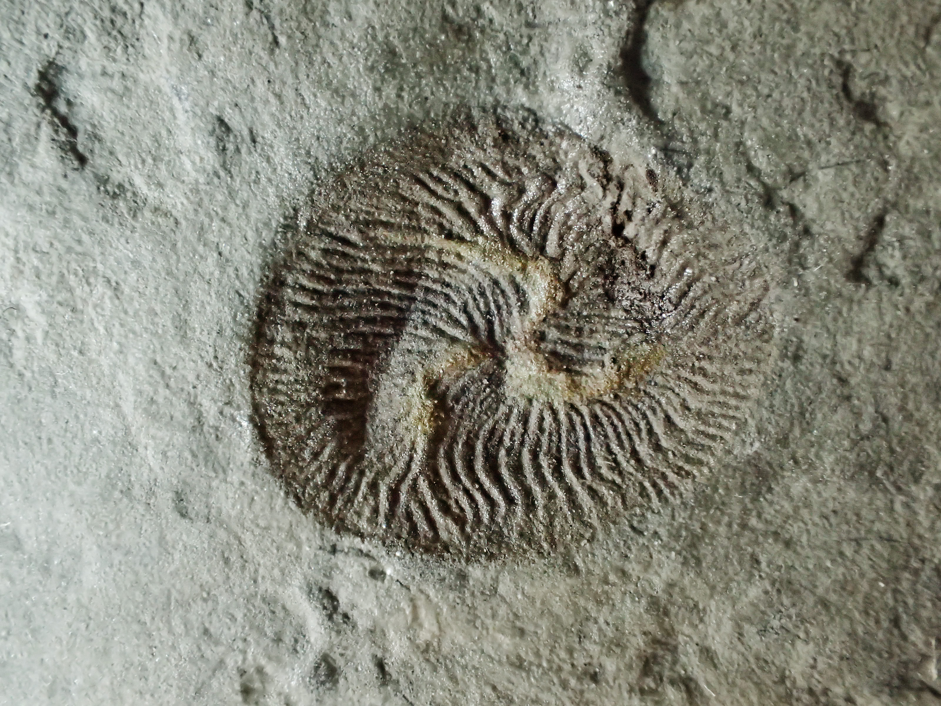 Vendian (Ediacaran) Fossil Tribrachidium